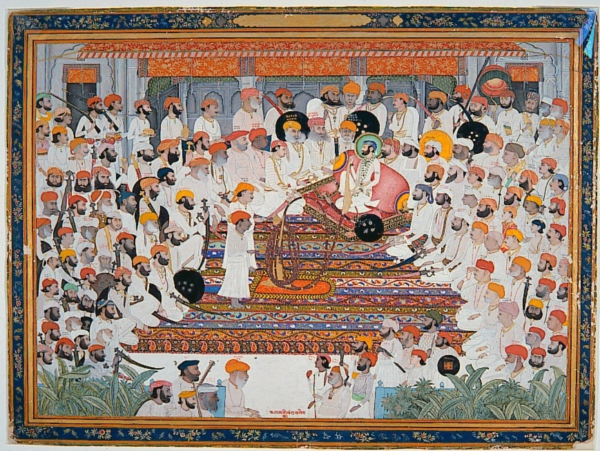 The Darbar of Raja Bakhtawar Singh of Alwar. Alwar, 1810, San Diego Museum of Art